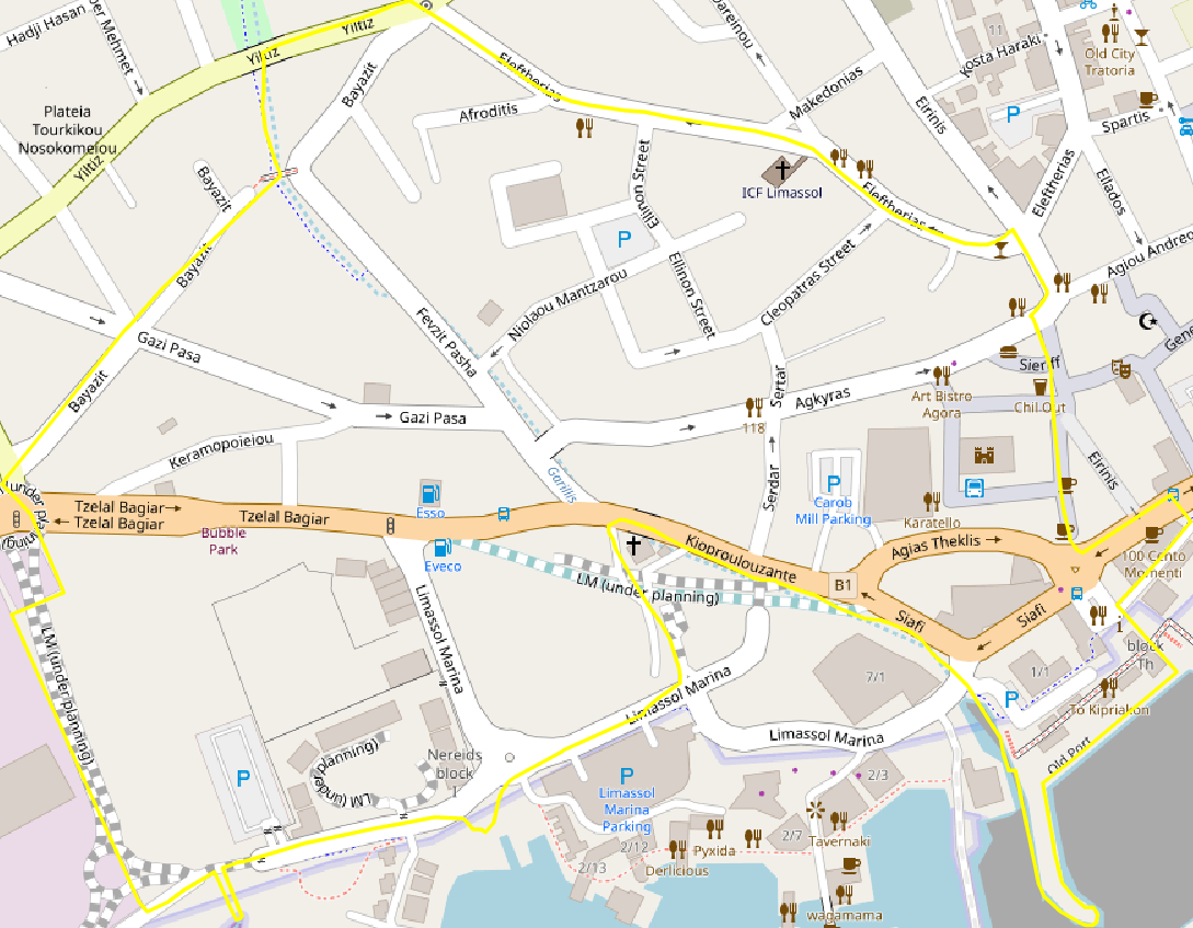 Map of Tziami Tzentit.